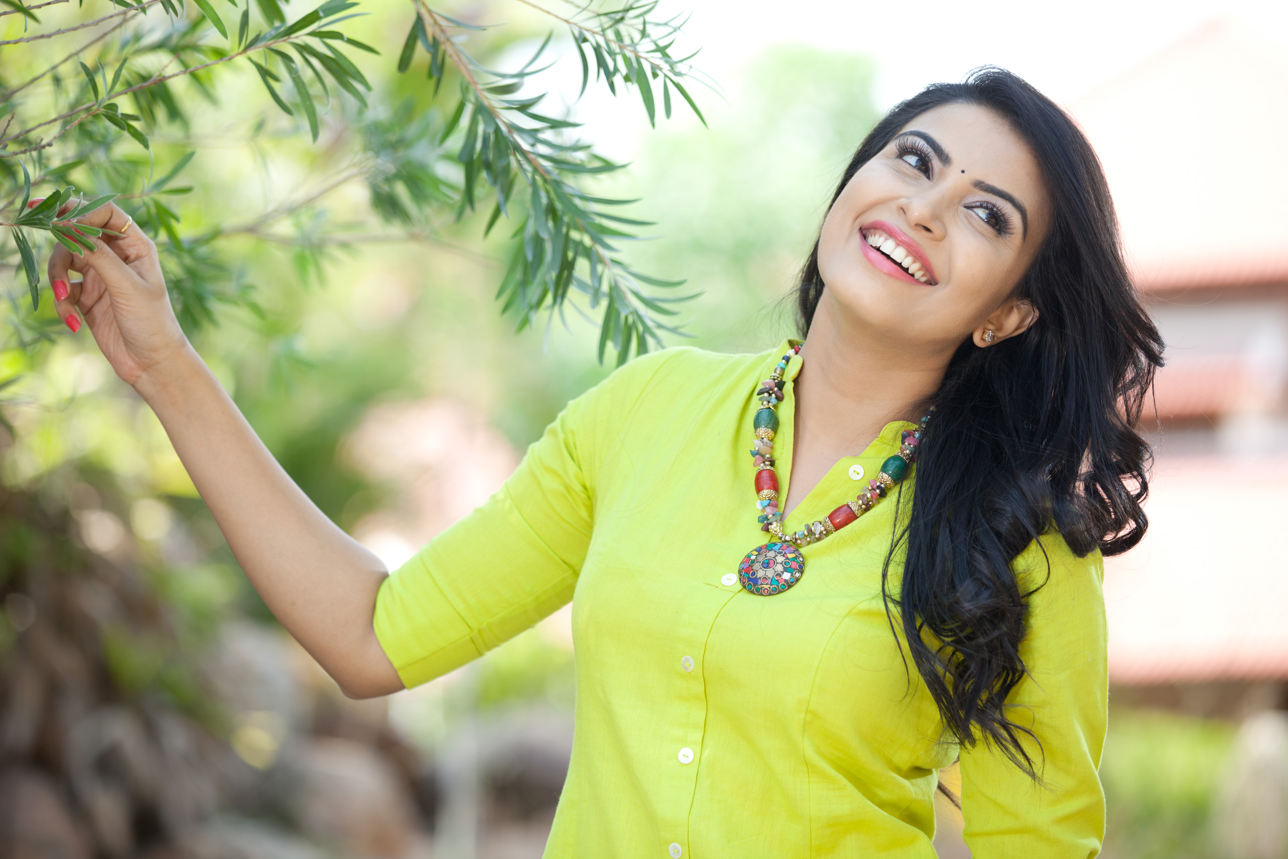 Kavya Shetty During Shoot of Smile Please